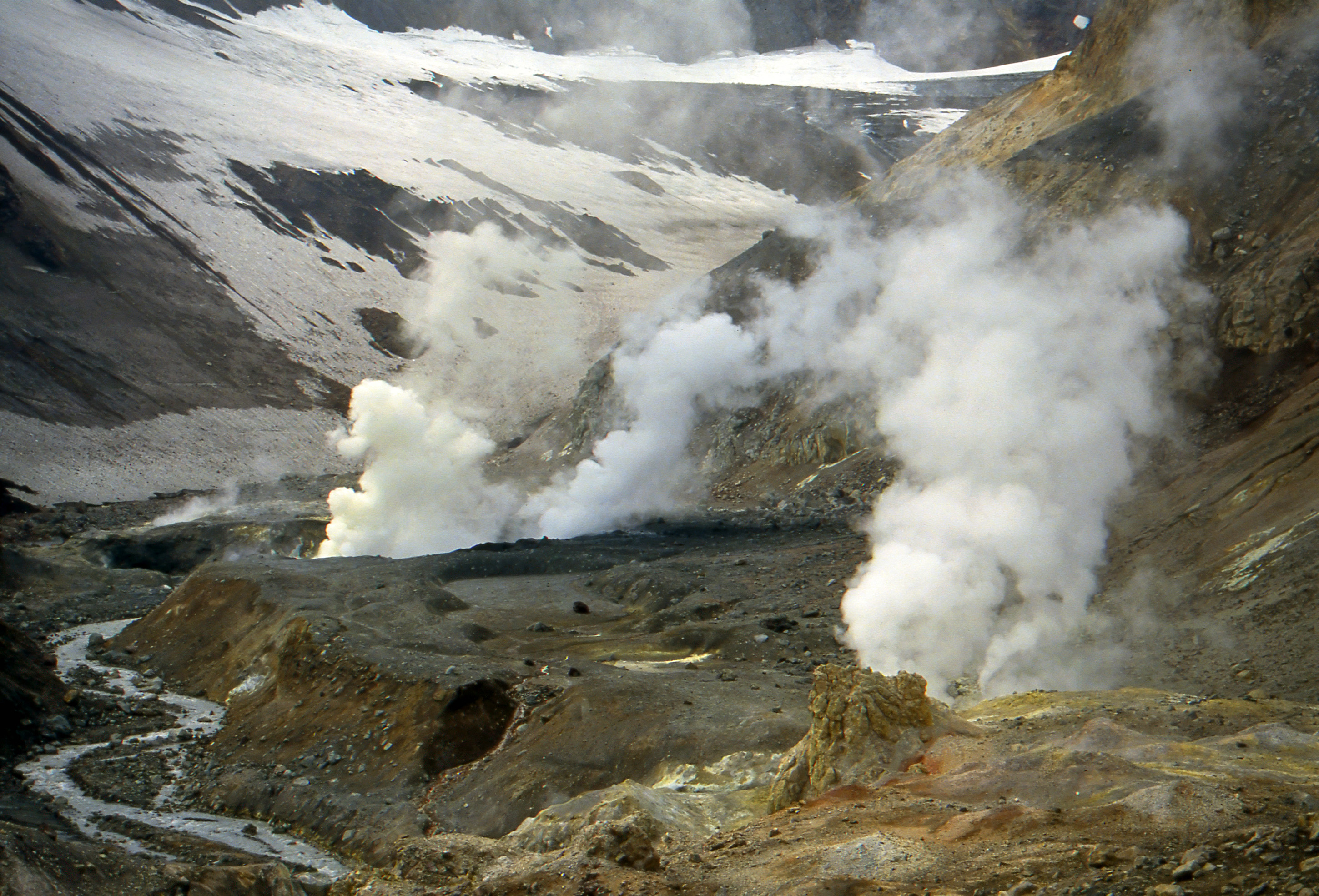 Fumarole in the Mutnovsky Volcano - Kamčatka, Russian Federation